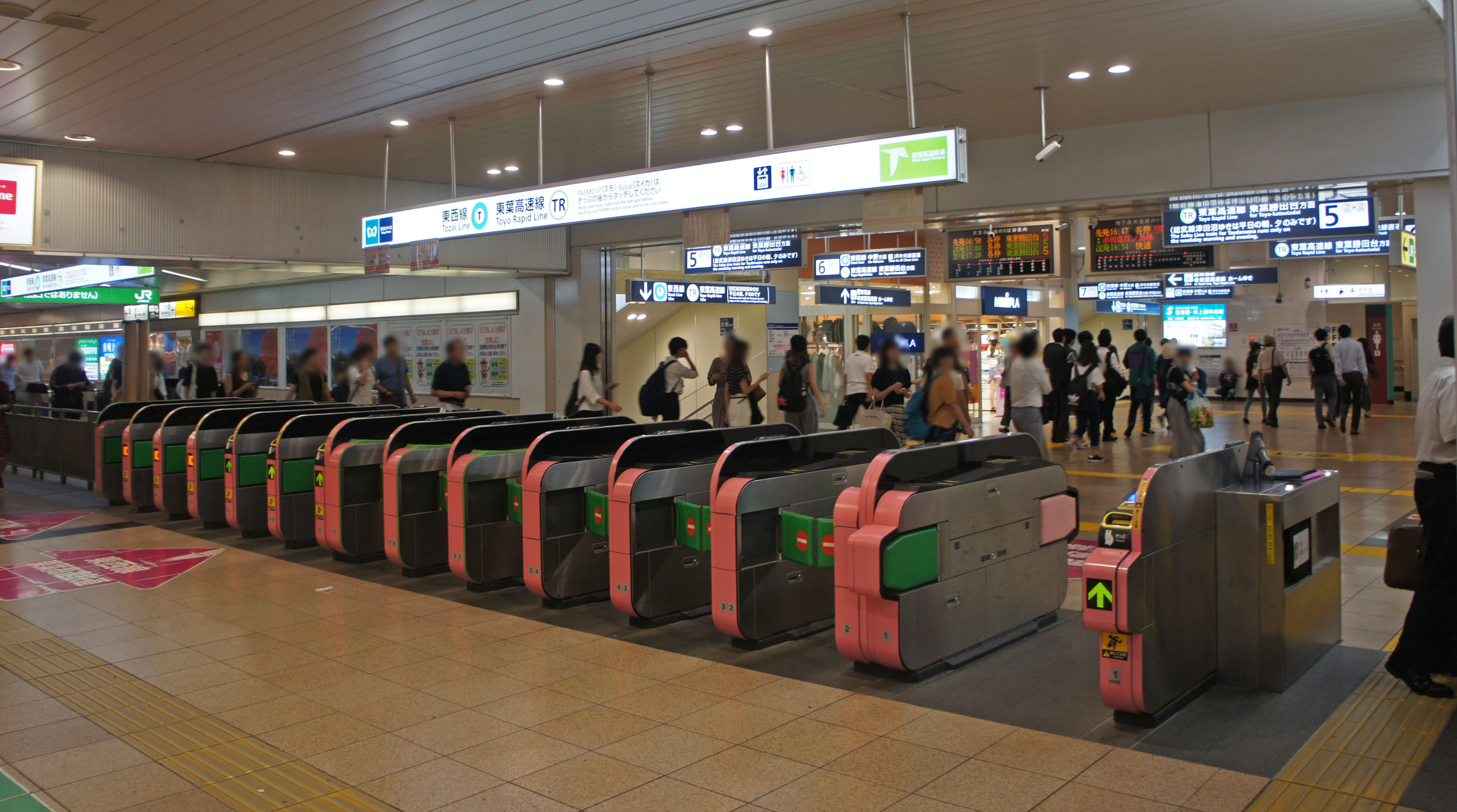 Transfer Gates of Nishi-Funabashi Station